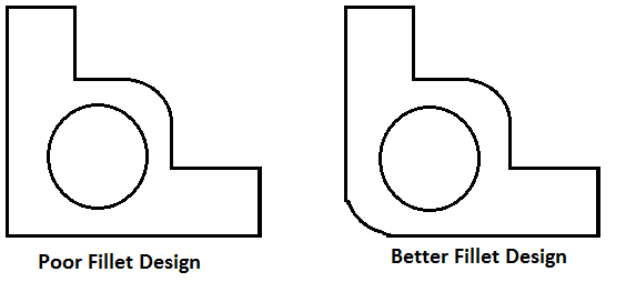 The picture shows the fillet designs in a corner of plastic products. The left picture shows poor fillet design due to it can induces stress points at the sharp corners meanwhile the right sides shows better fillet design due to it eliminates one of the criticl sharp points